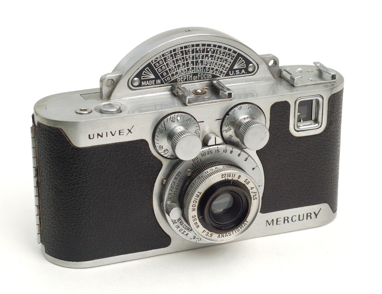 The Universal Camera Corporation found great success in the early/mid 1930s by selling very inexpensive cameras and film. By the late 30s, however, the camera-buying public had shown an increasing interest in high-end imports such as the Leica and Contax lines, and the simple plastic still cameras offered by Universal up to that point were no competition. Universal rectified the matter in October of 1938, with the release of the Univex Mercury (Model CC). Cast from an aluminum alloy and covered with leather, the Mercury was not only unlike anything Universal had offered before, it was actually a revolutionary achievement in the industry. I won't go into all the features, but two are worth noting: First was the unique rotary shutter (responsible for the circular protrusion on top of the camera), capable of extremely accurate speeds up to 1/1000th of a second. Secondly, the Mercury was the first camera to have internal flash synchronization, known today as the hot shoe. German-made cameras from Leitz and Zeiss were selling for hundreds of dollars, making the American-made Mercury a VERY appealing alternative at a mere $25. Nonetheless, producing America's fastest candid camera did not satisfy Universal, as the Contax II claimed a shutter speed of 1/1250. Thus, in June of 1939, Universal introduced the Mercury Model CC-1500, named after its top shutter speed. For collectors, the CC-1500 is a rare find, as only (an estimated) 3,000 were manufactured, compared to approximately 45,000 of the standard Mercury Model CC. The example pictured here is equipped with a Wollensak f/3.5 Tricor lens, and sold new in 1939 for $29.75. The camera was also available with a Hexar f2.0 lens (rare today), an option that more than doubled the price of the outfit to a whopping $65! If you're still reading this and, for some reason, would like to know more, click on over to this page at Rick Oleson's site.